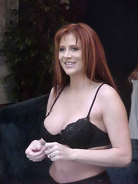 Renee LaRue on the Tera Patrick show